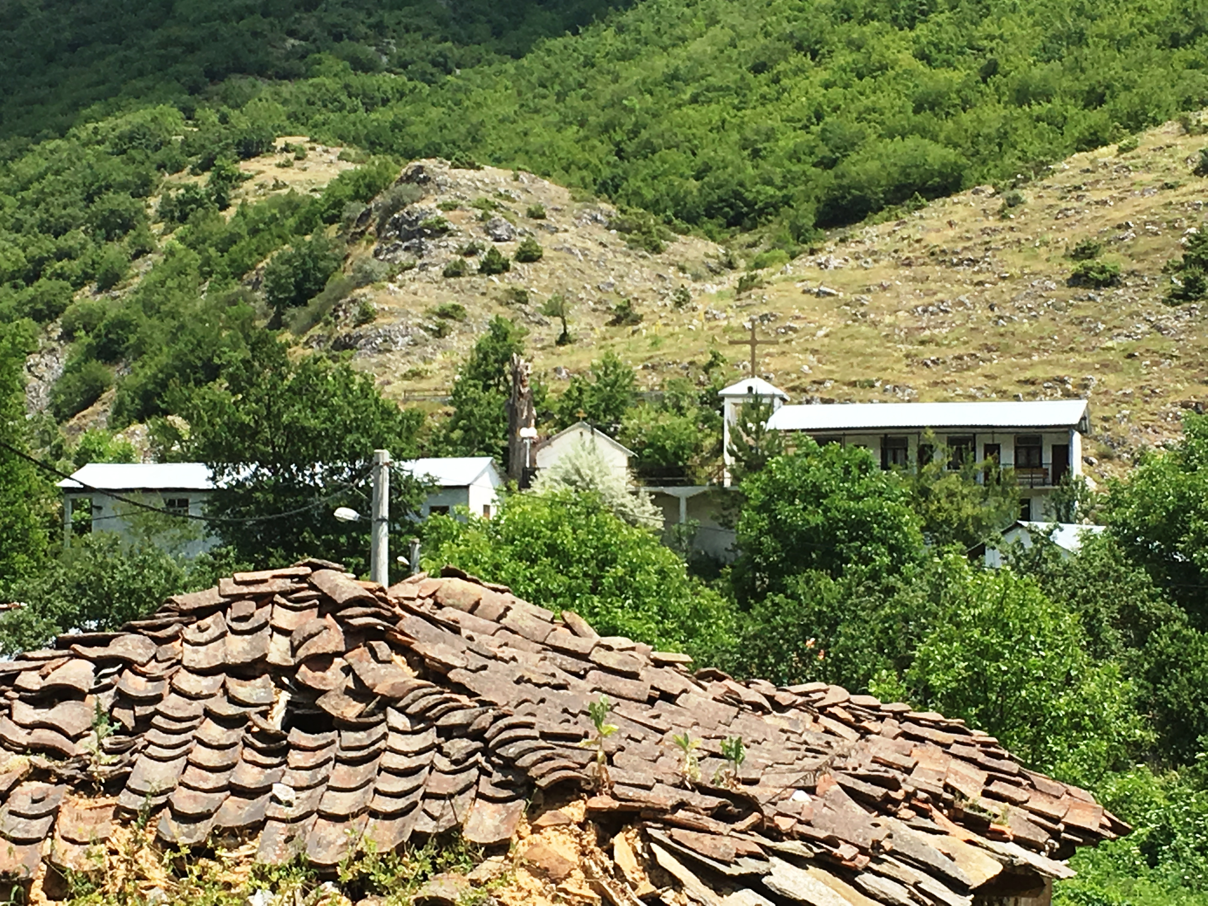 Krapa Monastery